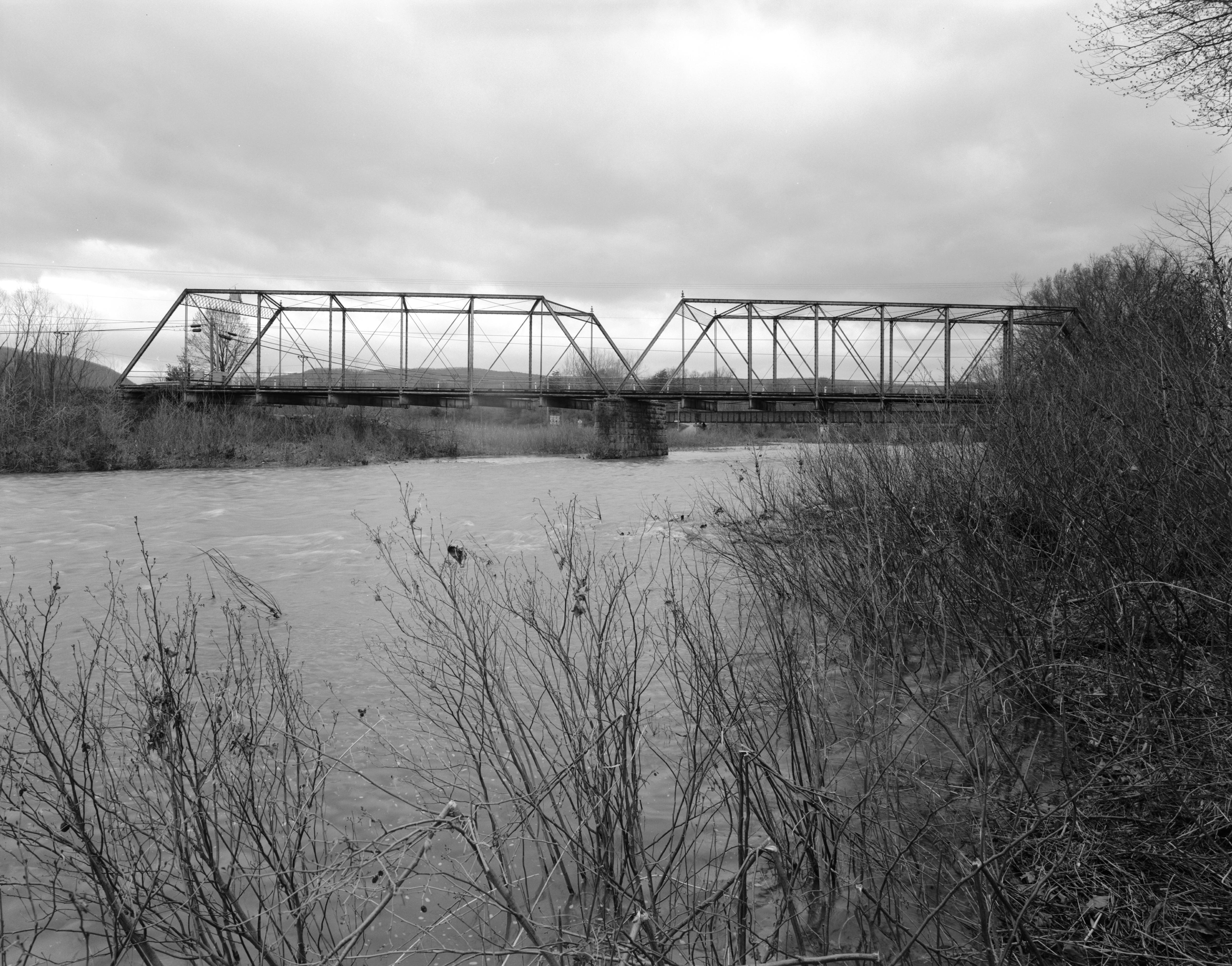 Goshen Bridge, Spanning Calfpasture River at State Route 746, Goshen vicinity (Rockbridge County, Virginia)